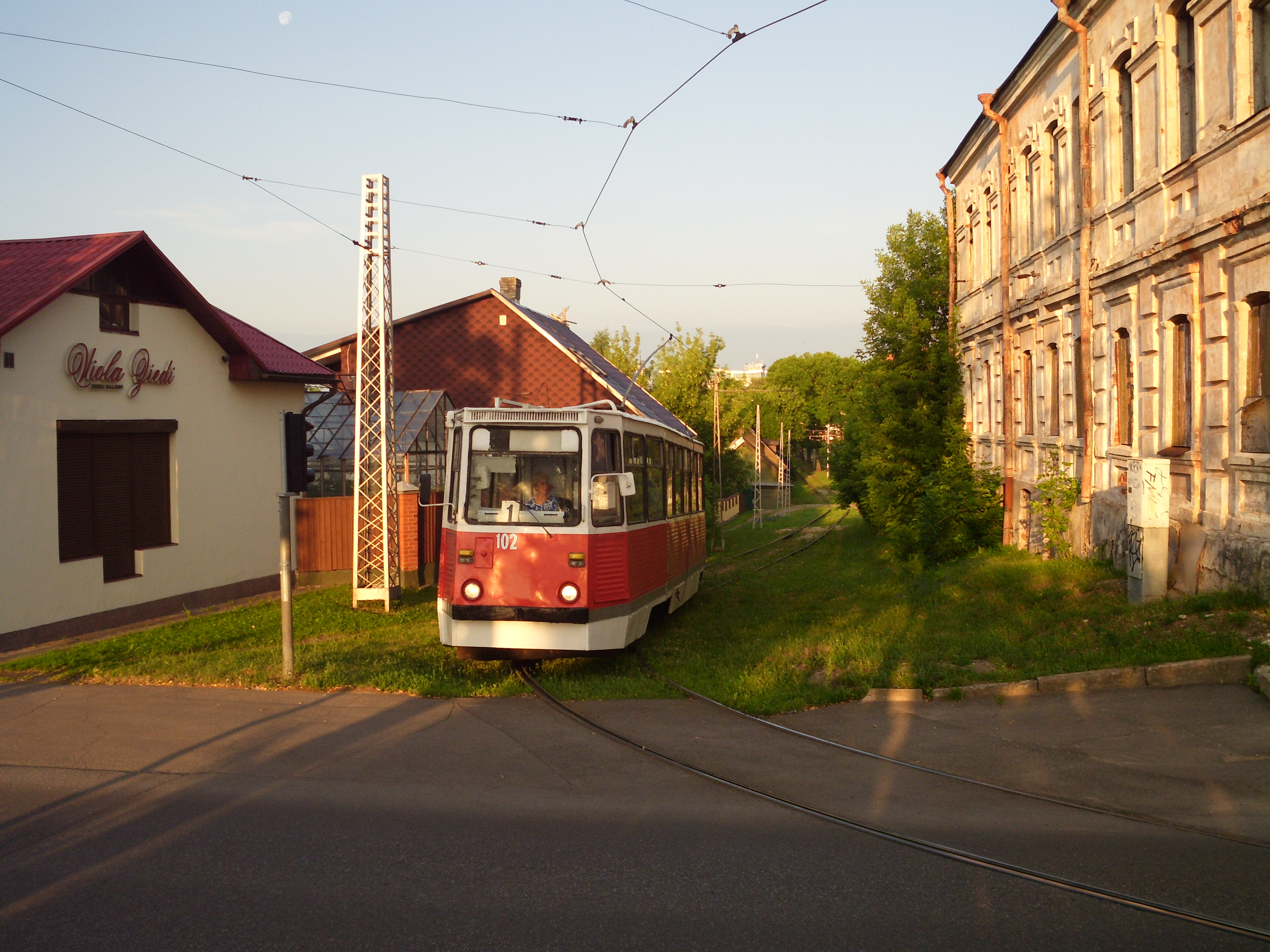 Tram approaching a stop at a train station in Daugavpils, Latvia.